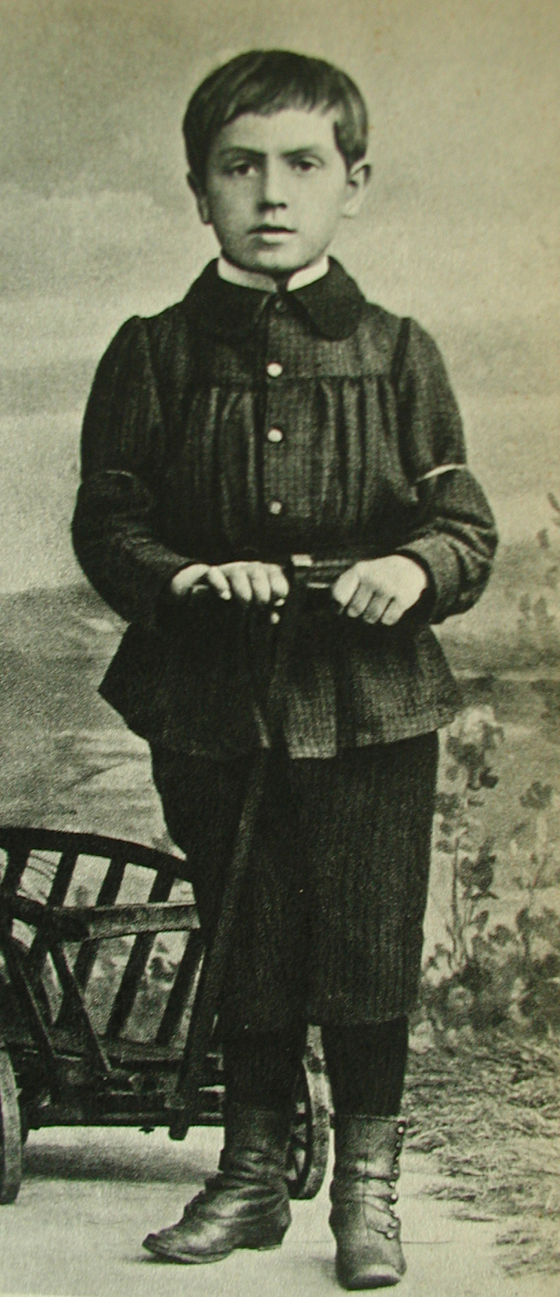 Ernst Reuter, seven years old